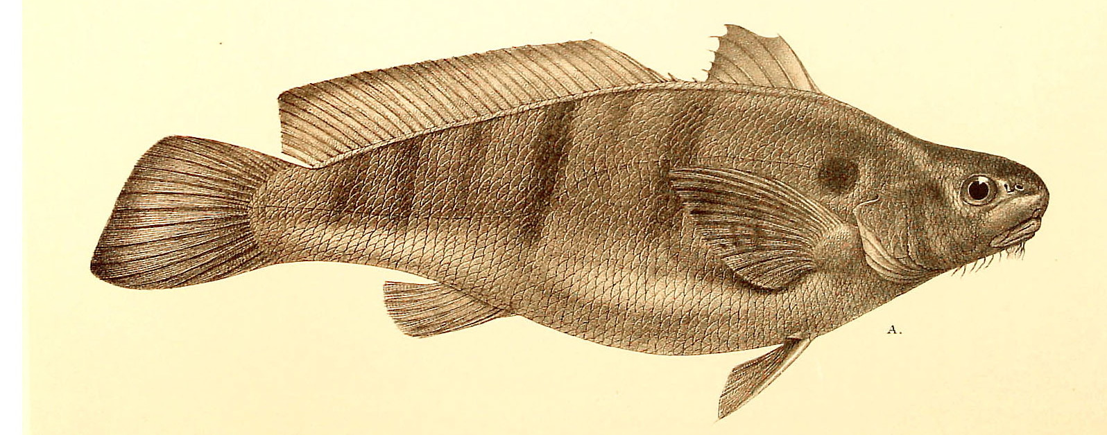 Paralonchurus brasiliensis